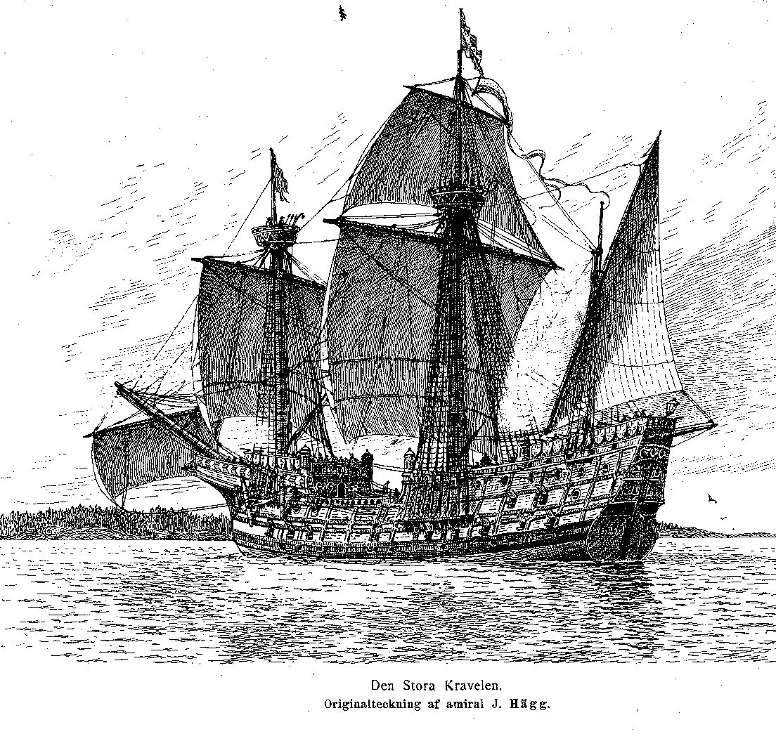 Swedish ship of the line Stora Kravelen 1530's.